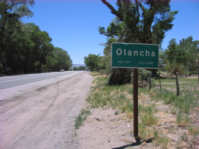 City limit sign for Olancha California as seen headed southbound on US Hwy 395